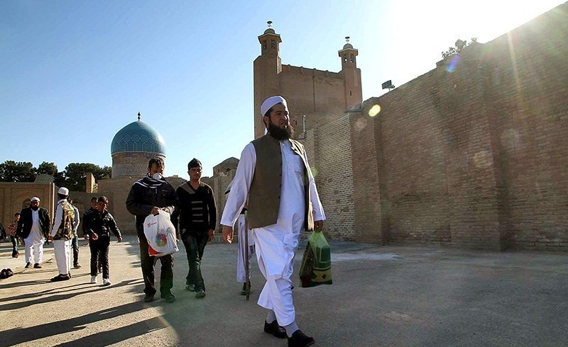 Salat Eid al-Adha 1434 AH, Torbat-e Jam - 16 October 2013 main album